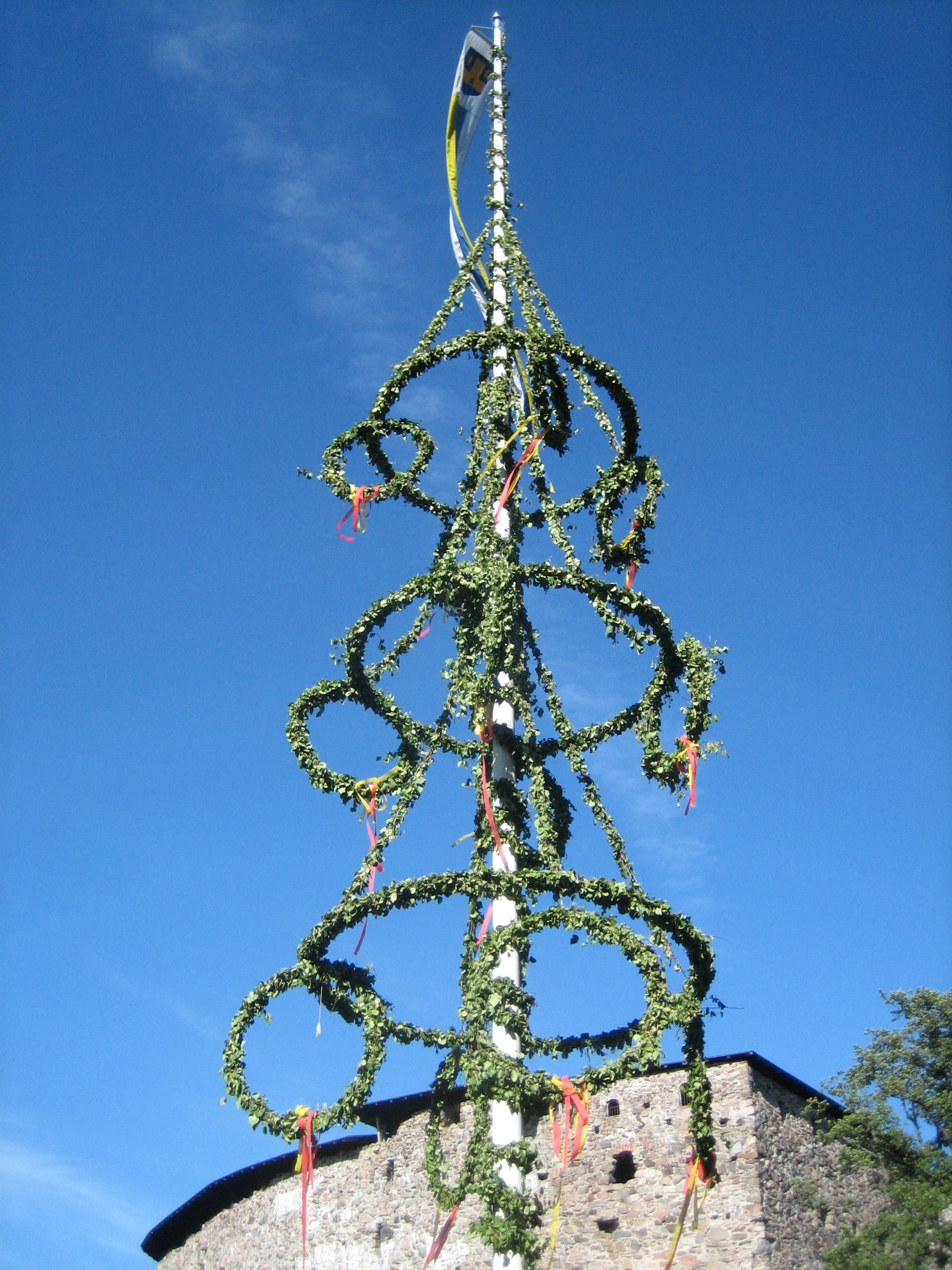 Midsummer pole (in Finnish: Juhannussalko) is a traditional Midsummer decoration in the Finnish Coastal area, on the Åland Islands, and in Sweden. In Europe, there are tradition of rising Maypoles (or Scandinavian poles) in various countries. This midsummer pole stands in front of Raseborg Castle (in Finnish: Raaseporin linna) in Tammisaari, Finland.